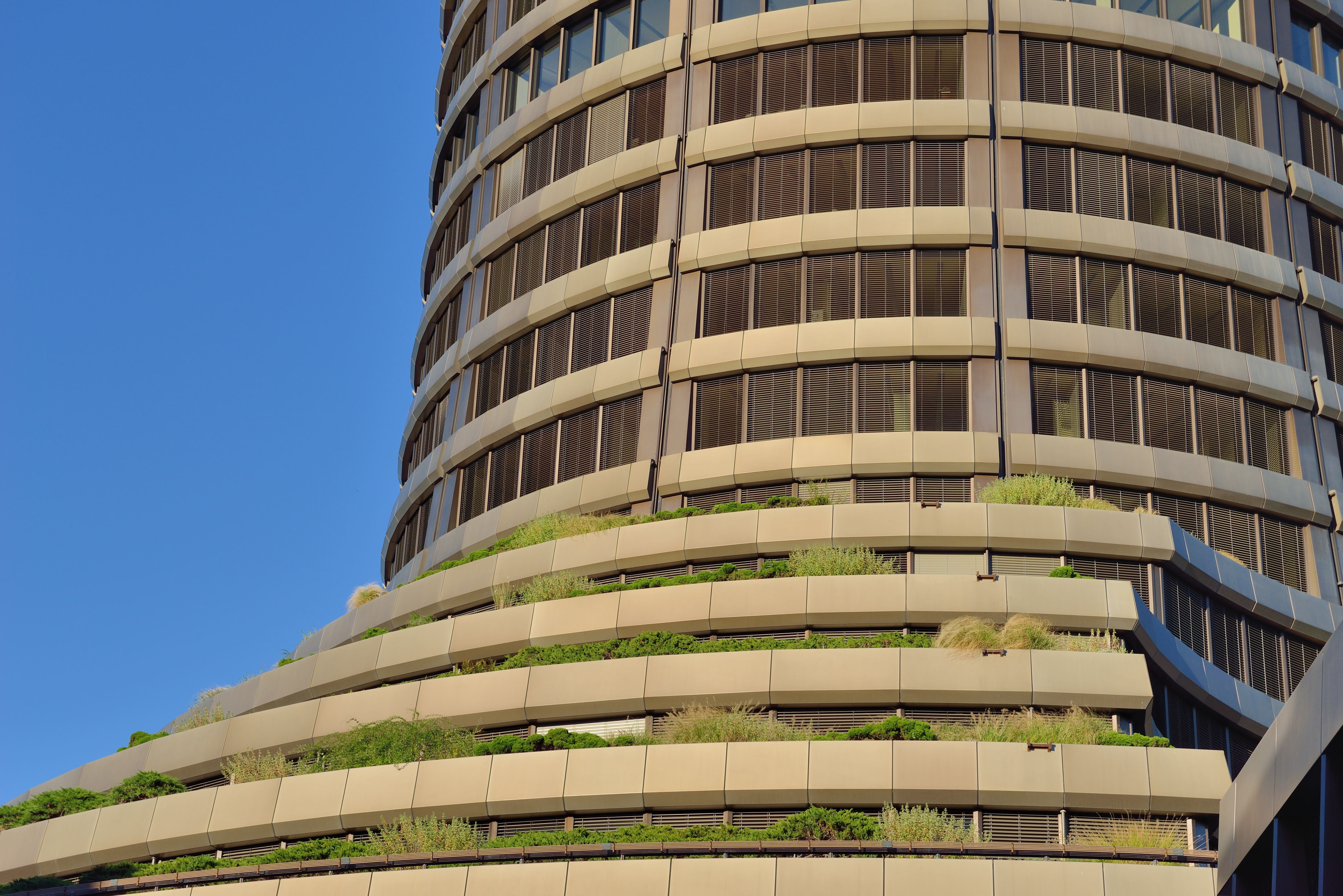 Basel: Bank for International Settlements